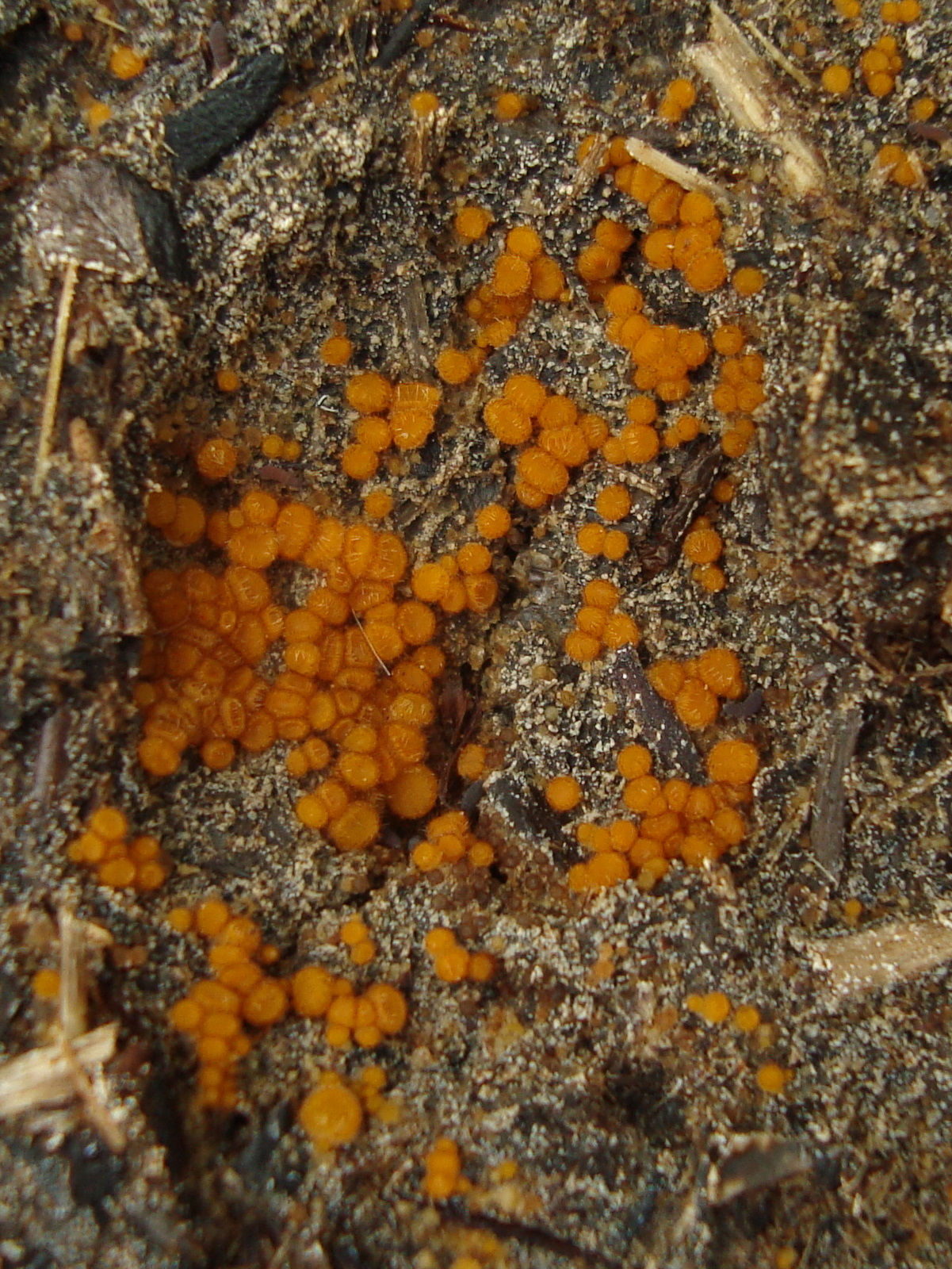 An unidentified species of the fungal genus Cheilymenia. Specimens photographed in Villa O’Higgins, Aisén, Chile. "Notes: Growing on an old cow patty, these are minute with fine brown long straight erect hairs on back and around margin."